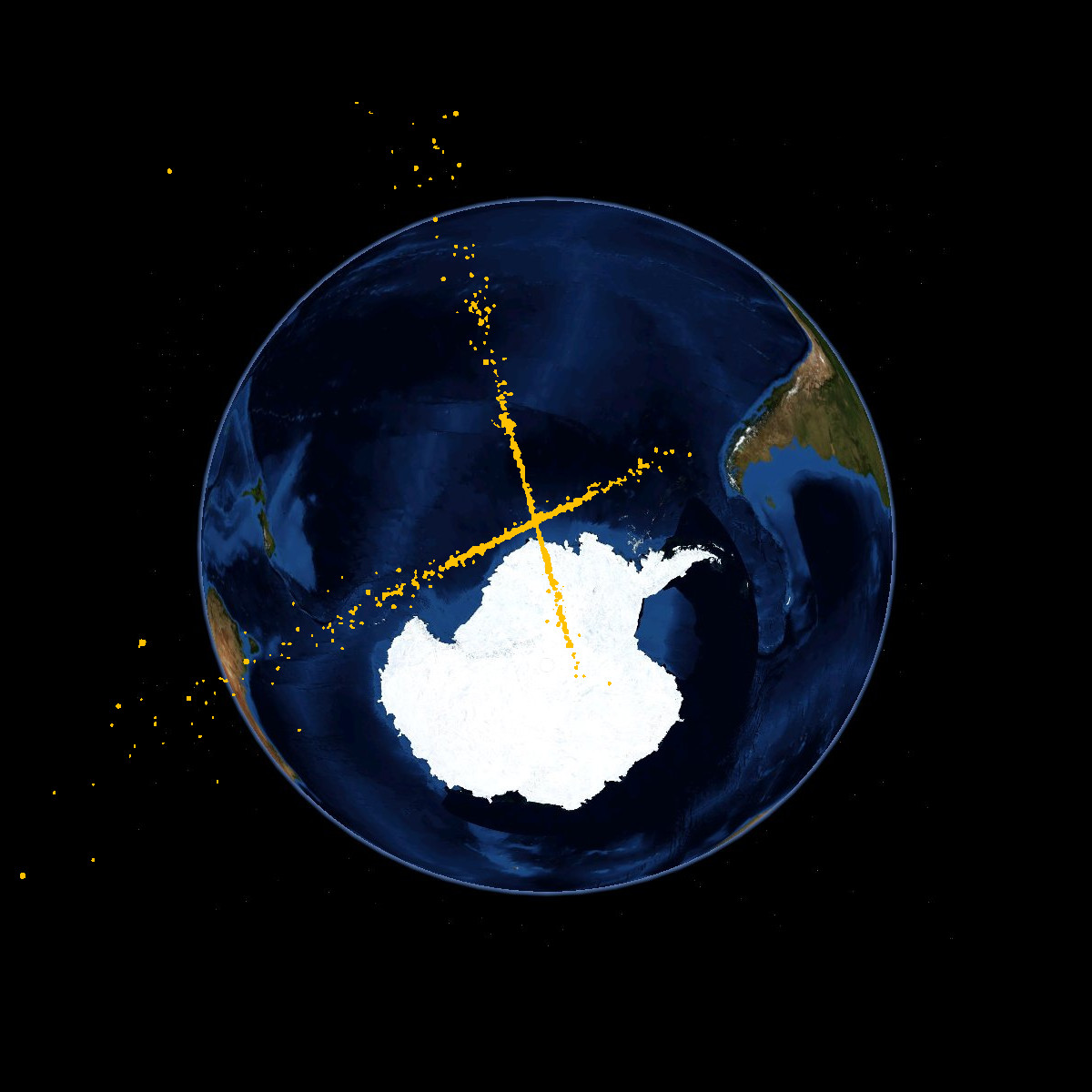 Collision between Iridium 33 and Kosmos 2251 -- debris field after 50 minutes. Globe by NASA Worldwind in the public domain. Data based on work of Astronautics Research Group, University of Southampton.